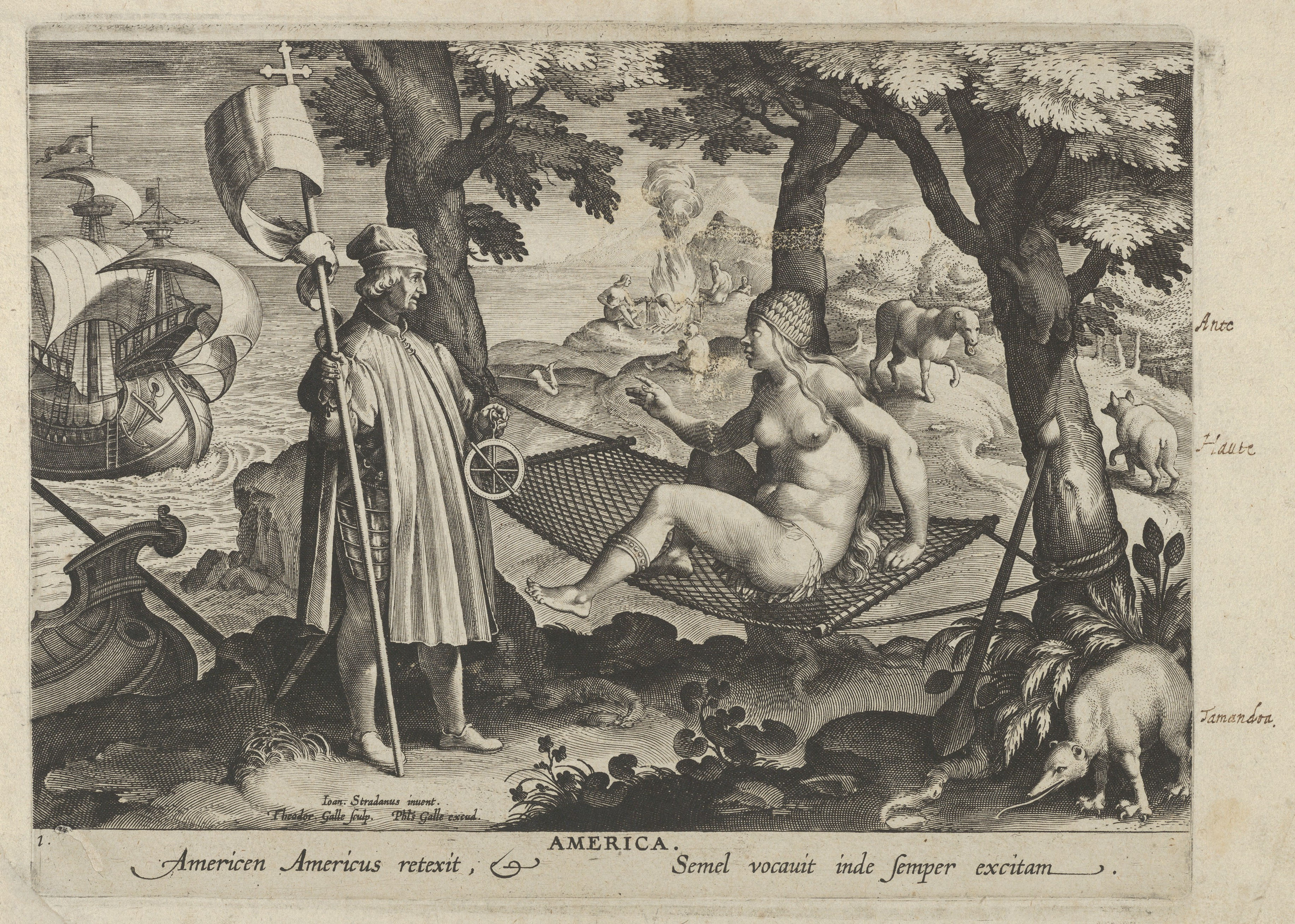 Print; Prints